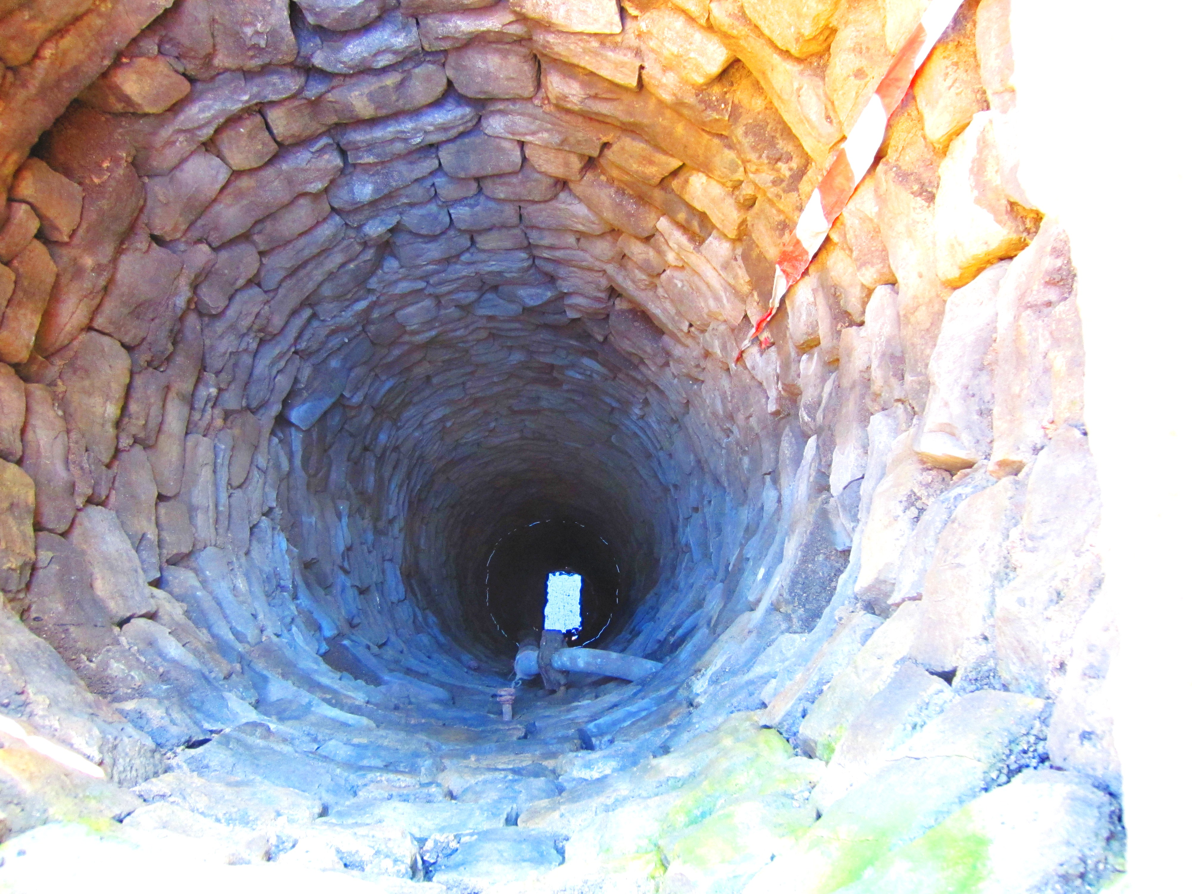 Ste Barbe Moselle well